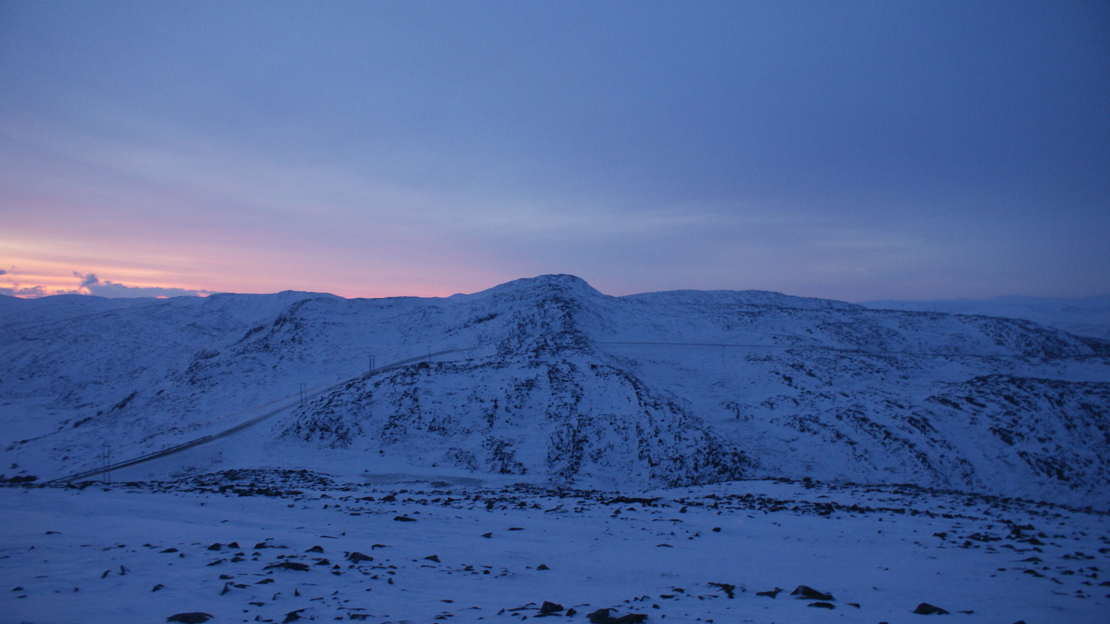 Nordkinnhalvøya, Finnmark, Norway. Midday during polar night, 2 January.